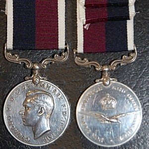 The first King George VI version of the Royal Air Force Long Service and Good Conduct Medal